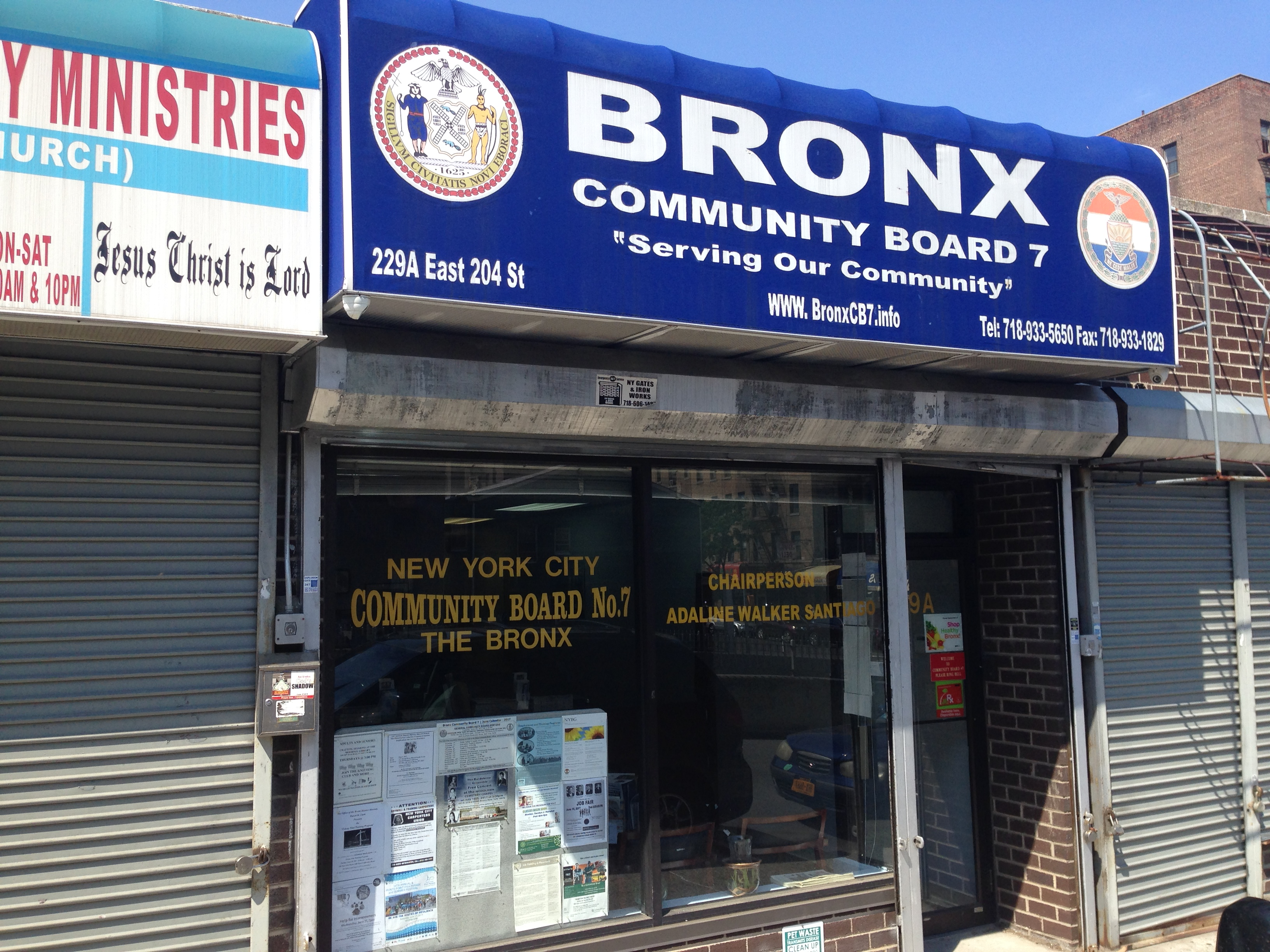 Bronx Community Board 7 office at 229A East 204th Street, Bronx NY 10467